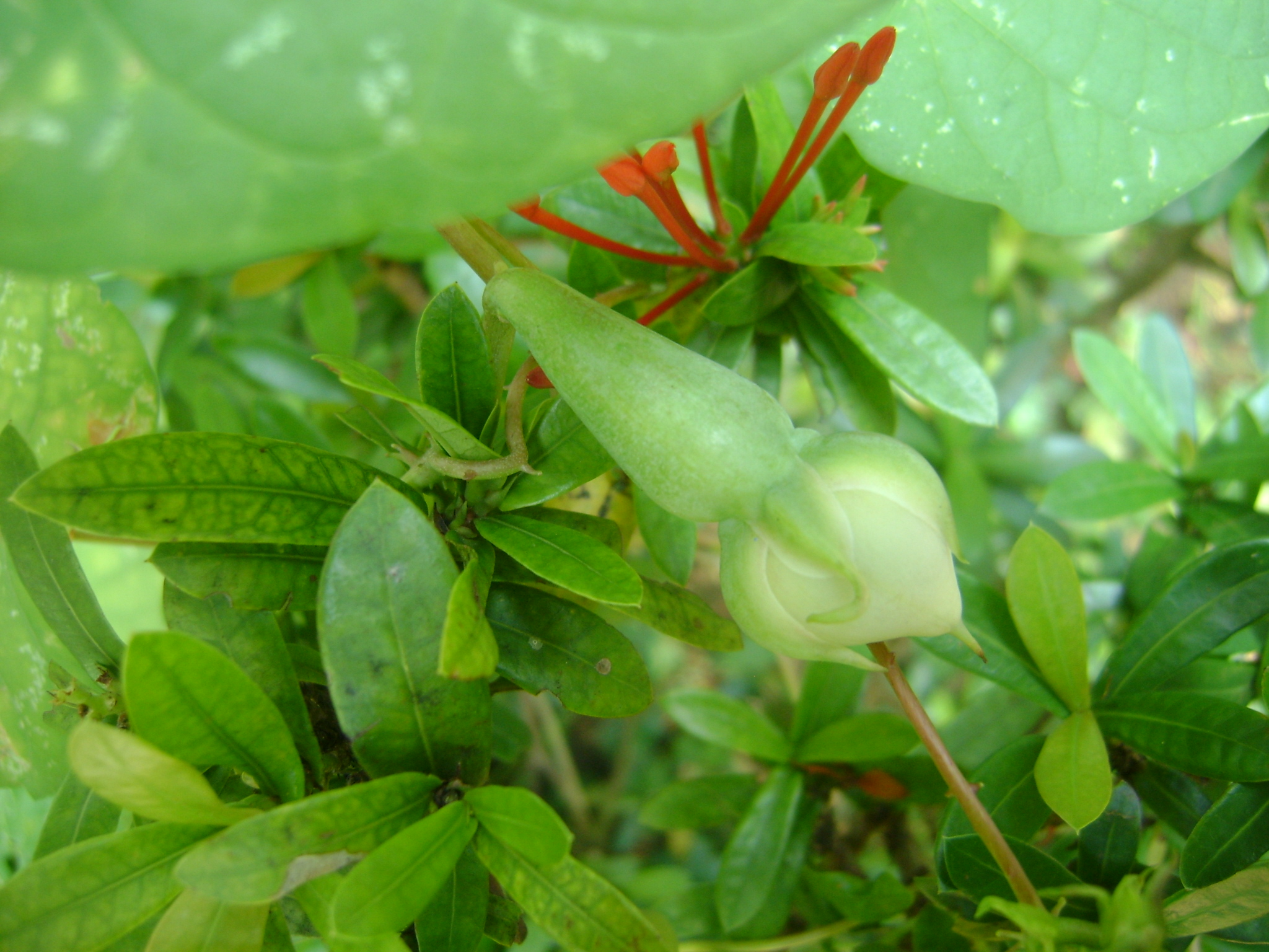 Ipomoea turbinata